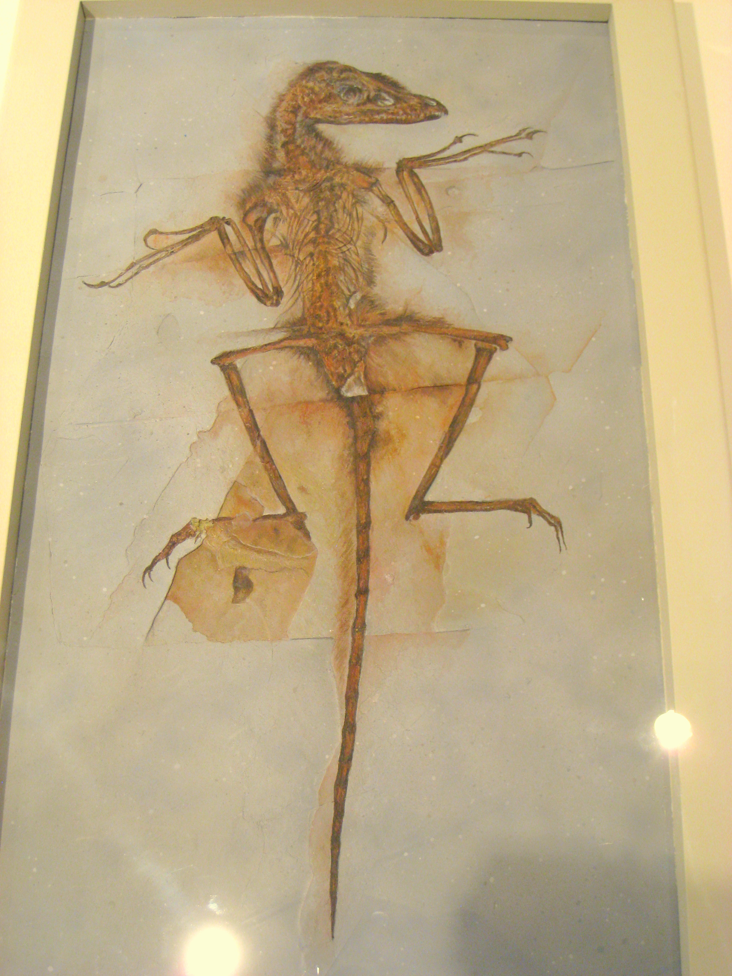 Sinornithosaurus sp., Carnegie Museum of Natural History, Pittsburgh, Pennsylvania, USA.